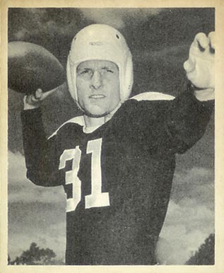 American football player Perry Moss on a 1948 Bowman card.